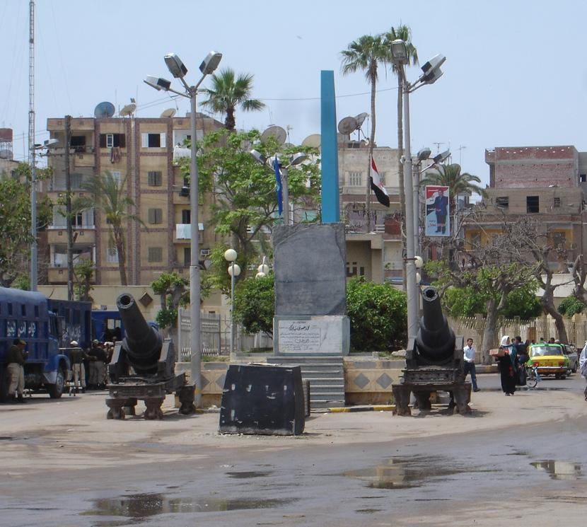 Historical cannons which are put in a square in mid-town of Rosetta, Egypt. (Author: Amr Fayez)